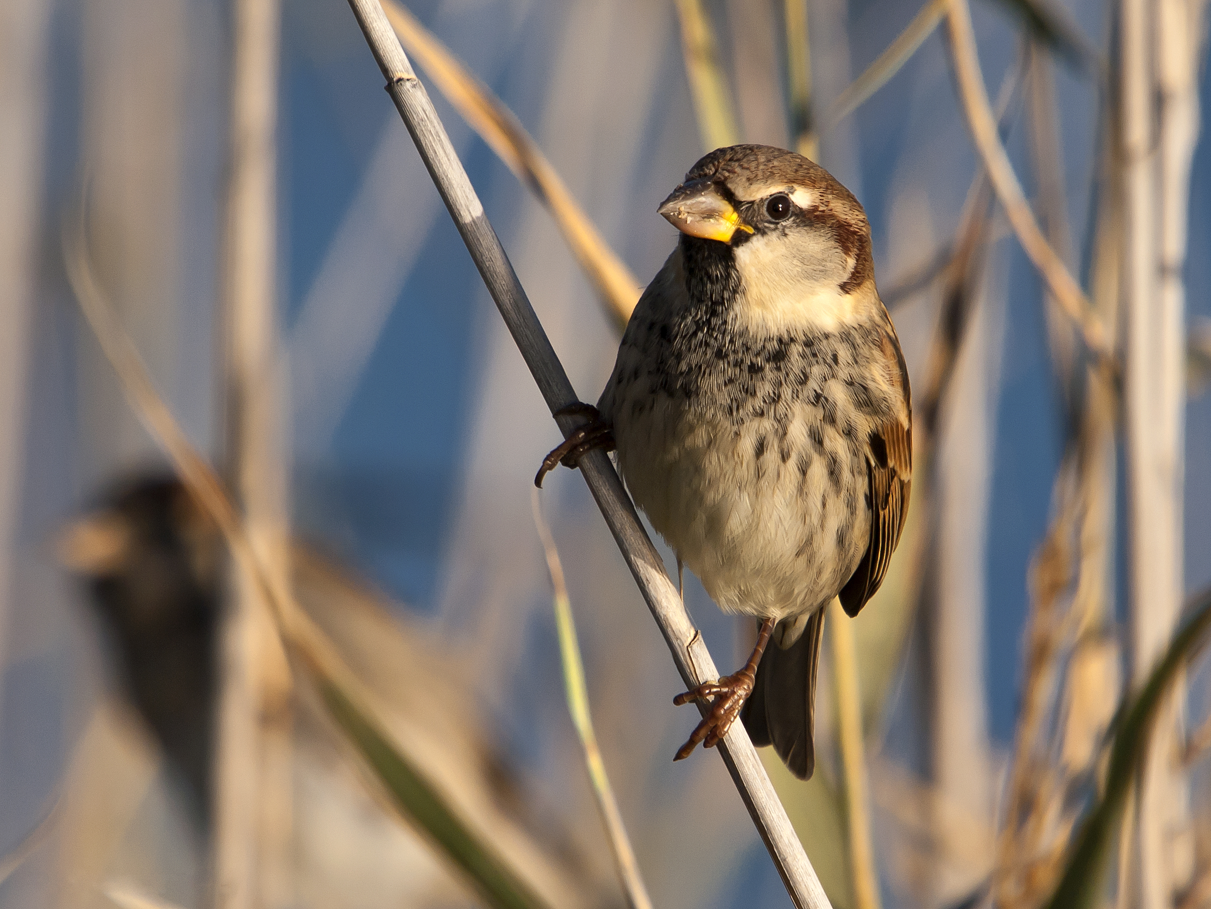 A Spanish Sparrow in Maspalomas, Gran Canaria, Canary Islands, Spain